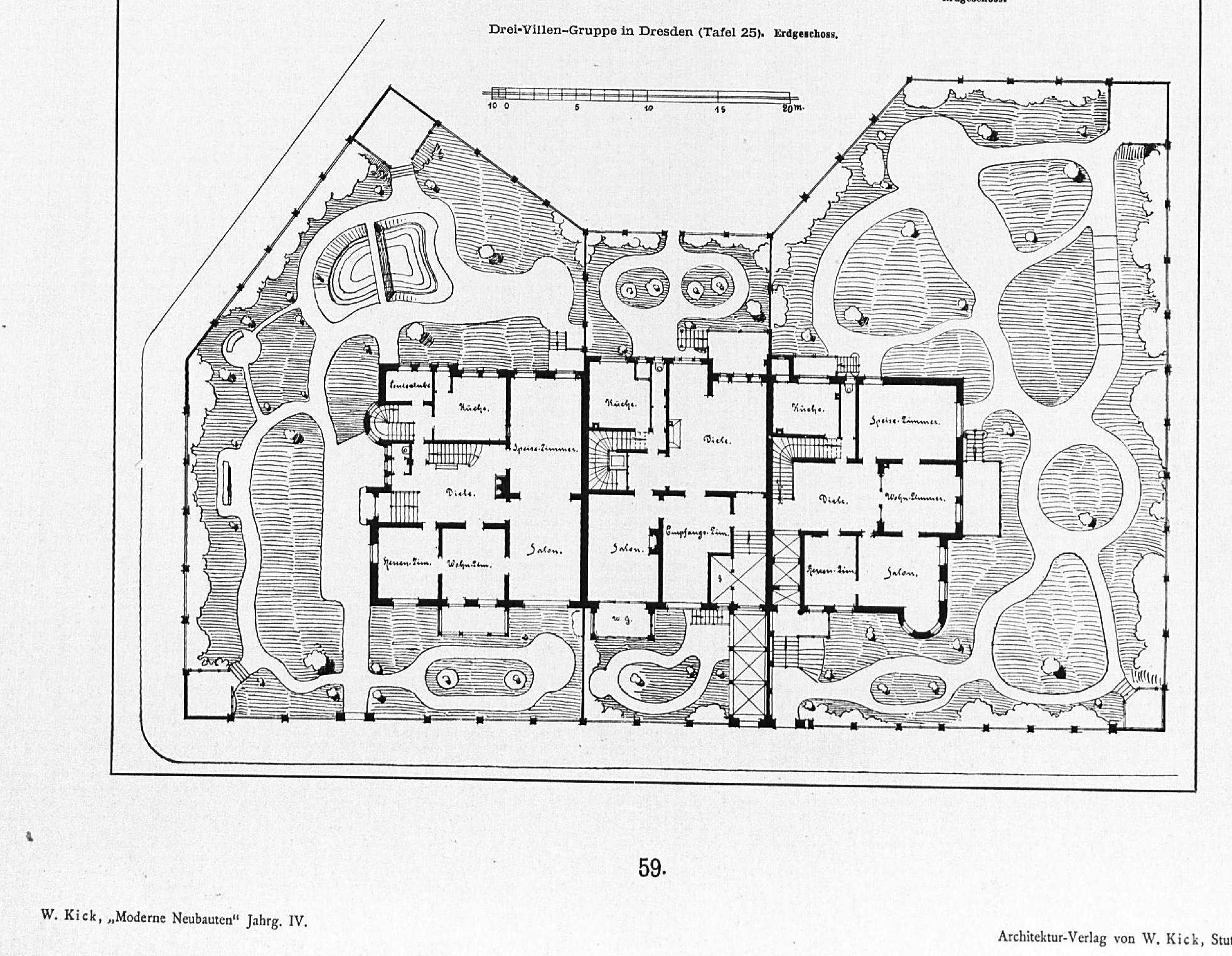 Drei-Villen-Gruppe_Dresden_Comeniusstr._61,62_u._65_Architekten_Rose_&_Röhle_Dresden,_Grundriss.jpg